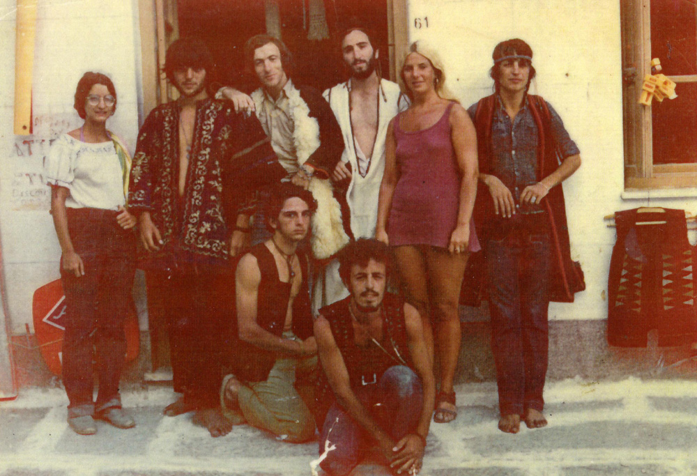 Pireotis during the 70's on Ios picture scan from old Photo